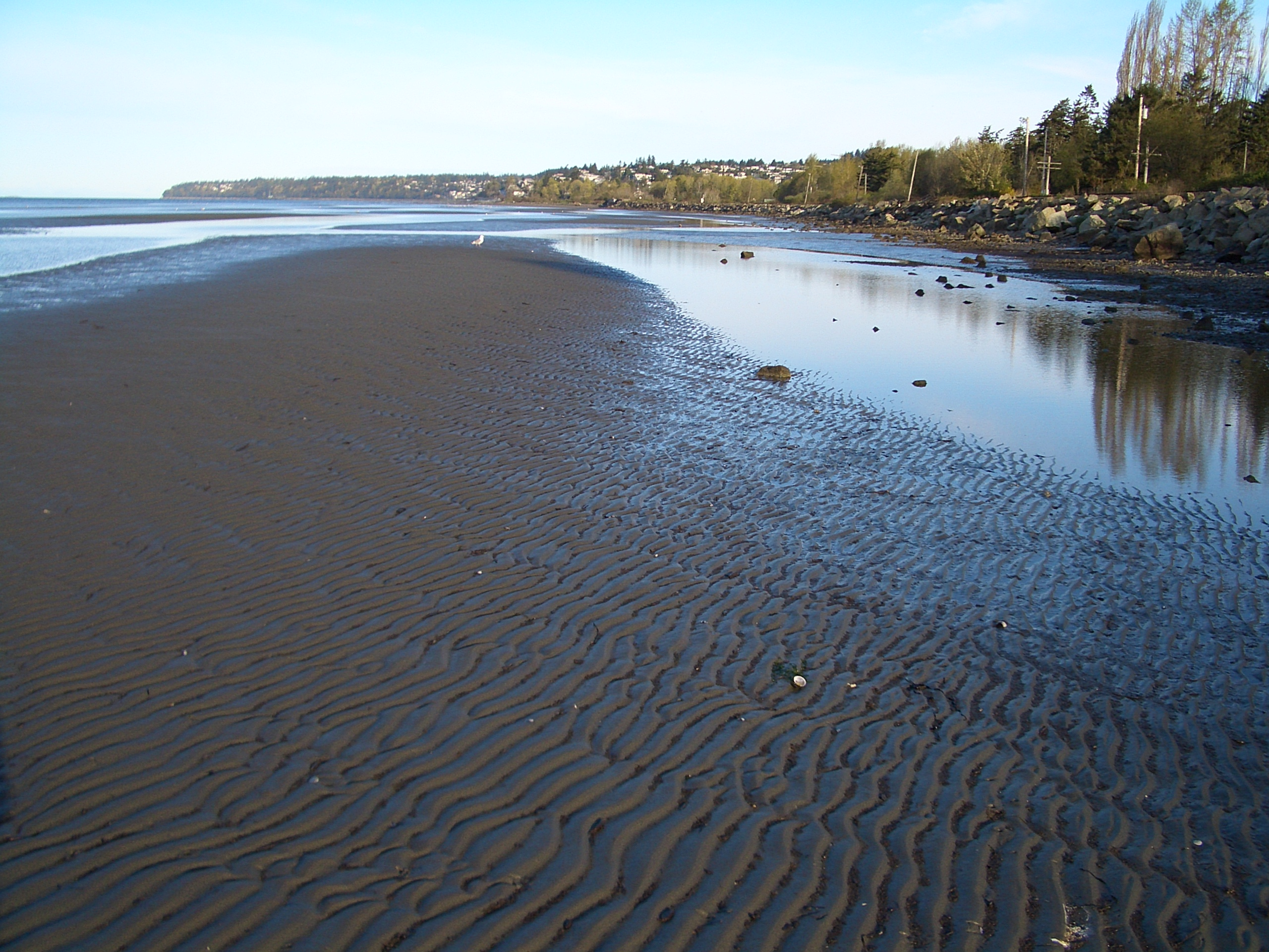 The Semiahmoo Bay artificially reinforced with a rock embankment for the railway. (Near Semiahmoo Indian Reserve, south of White Rock. The city of White Rock in the background.